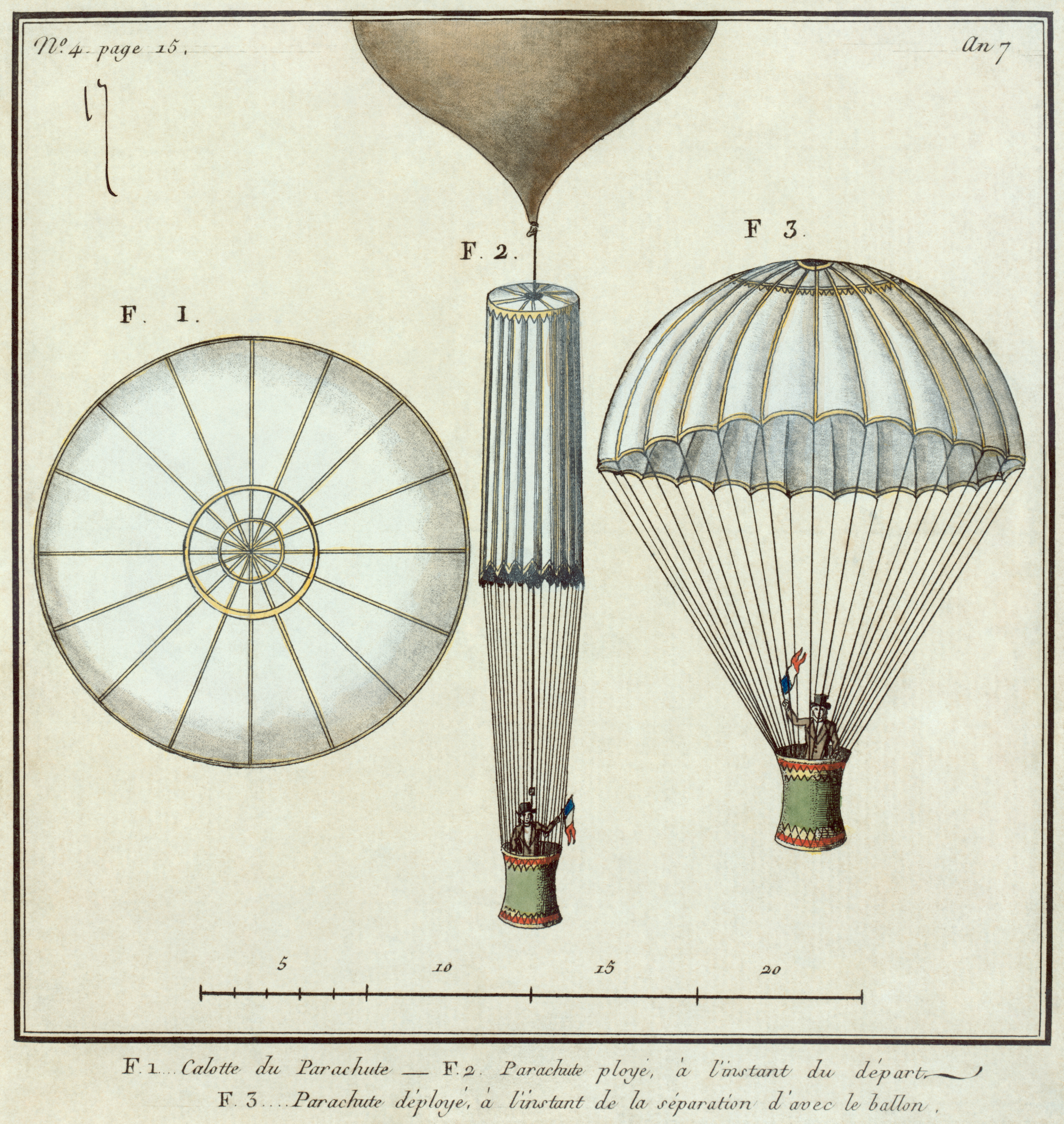 Jacques Garnerin's first parachute, which he tested on himself at Parc Monceau, Paris, on 22 October 1797). Caption translation: (Figure 1) Canopy of the parachute; (figure 2) Parachute position at the instant of departure (from the ground into the air); (figure 3) Parachute deployed at the instant of separation from the balloon.